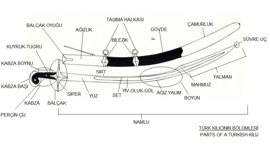 I created this original work by making changes to the original picture I found at wikimedia commons.